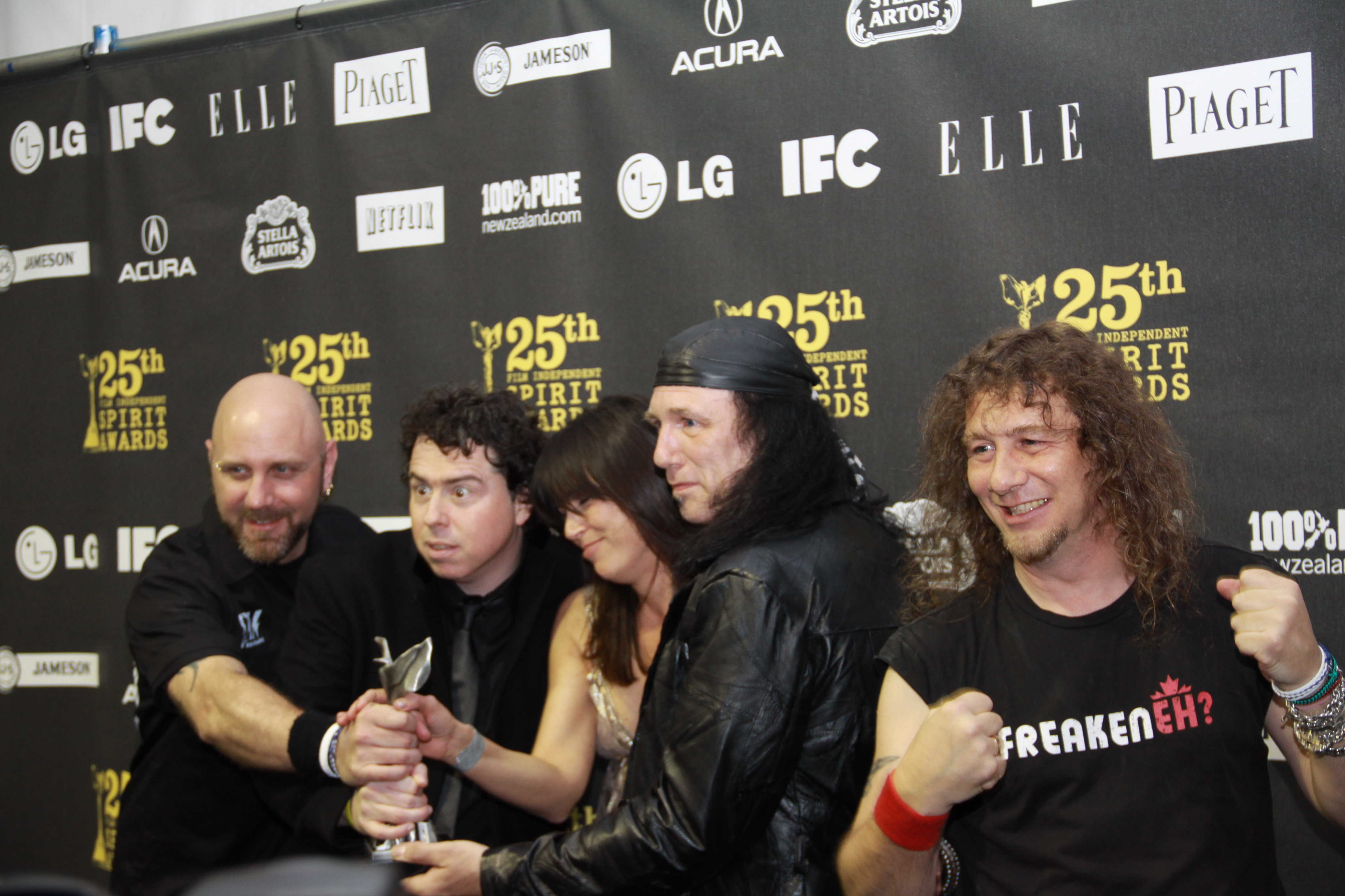 Anvil with director Sacha Gervasi and executive producer Rebecca Yeldham, winners at the at Independent Spirit Awards in Los Angeles, March 5th, 2010.